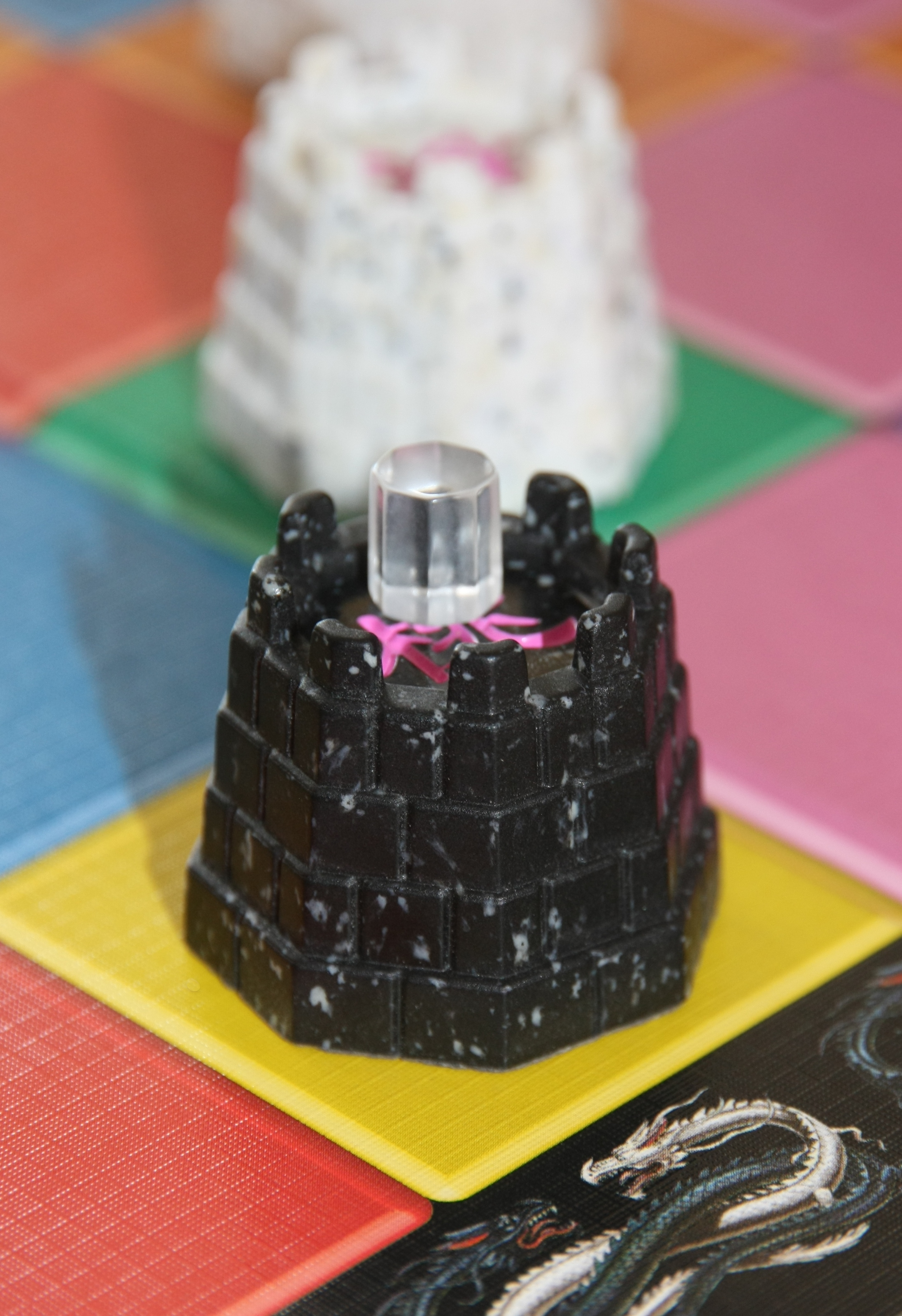 A Sumo tower piece from the board game Kamisado: a tower marked with a Sumo Ring